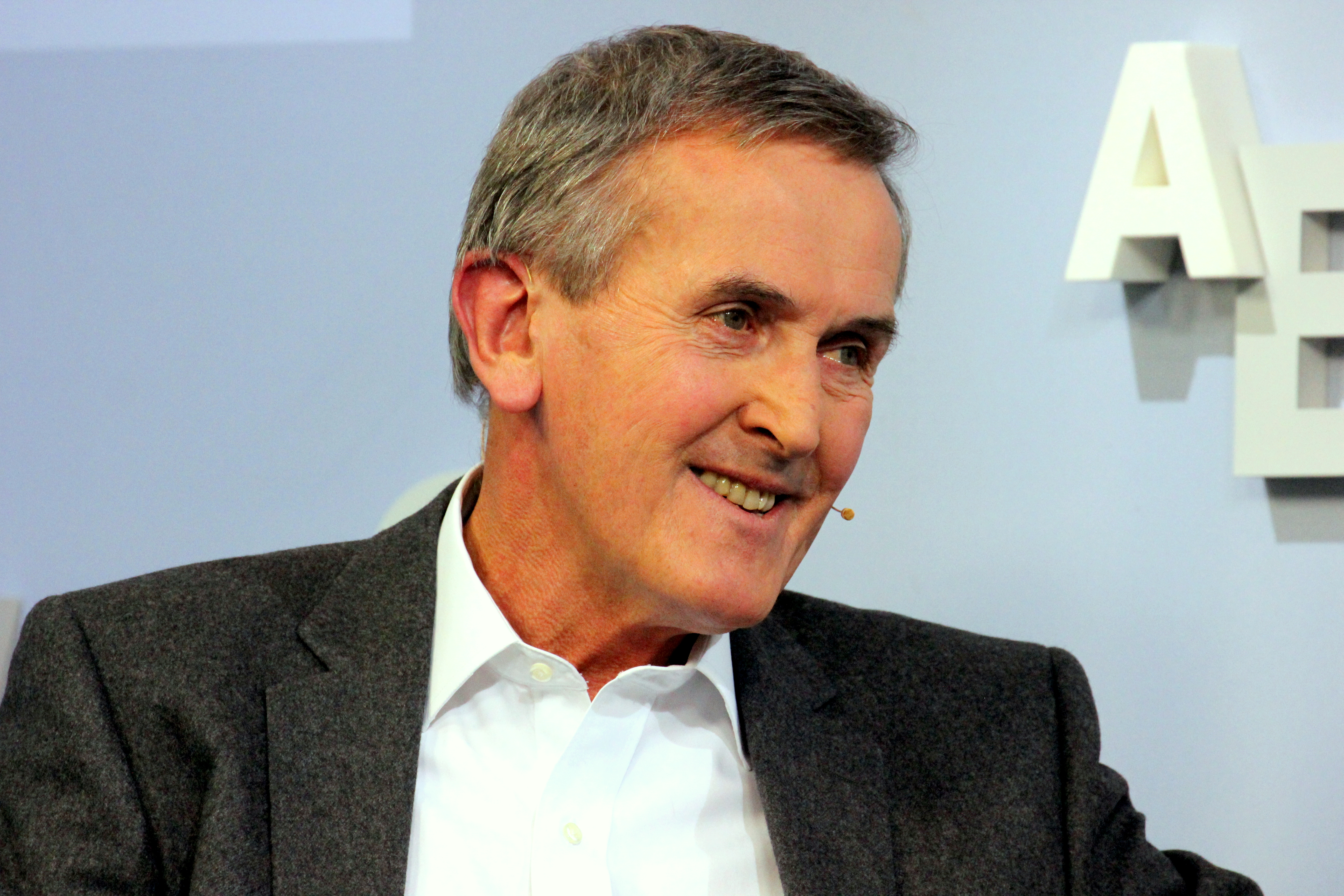 Neil MacGregor at Frankfurt Book Fair 2015